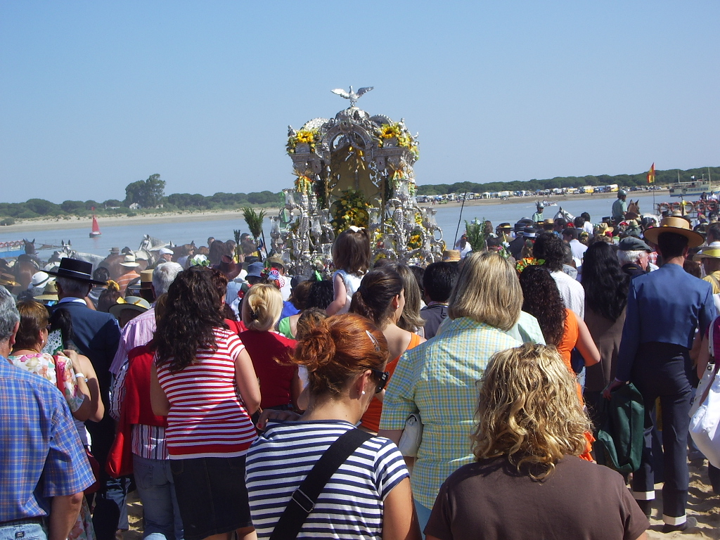 Simpecaado brotherhood of Sanlúcar. Pilgrimage of El Rocio, shipment of the brotherhoods in Sanlúcar towards Doñana, May 2009